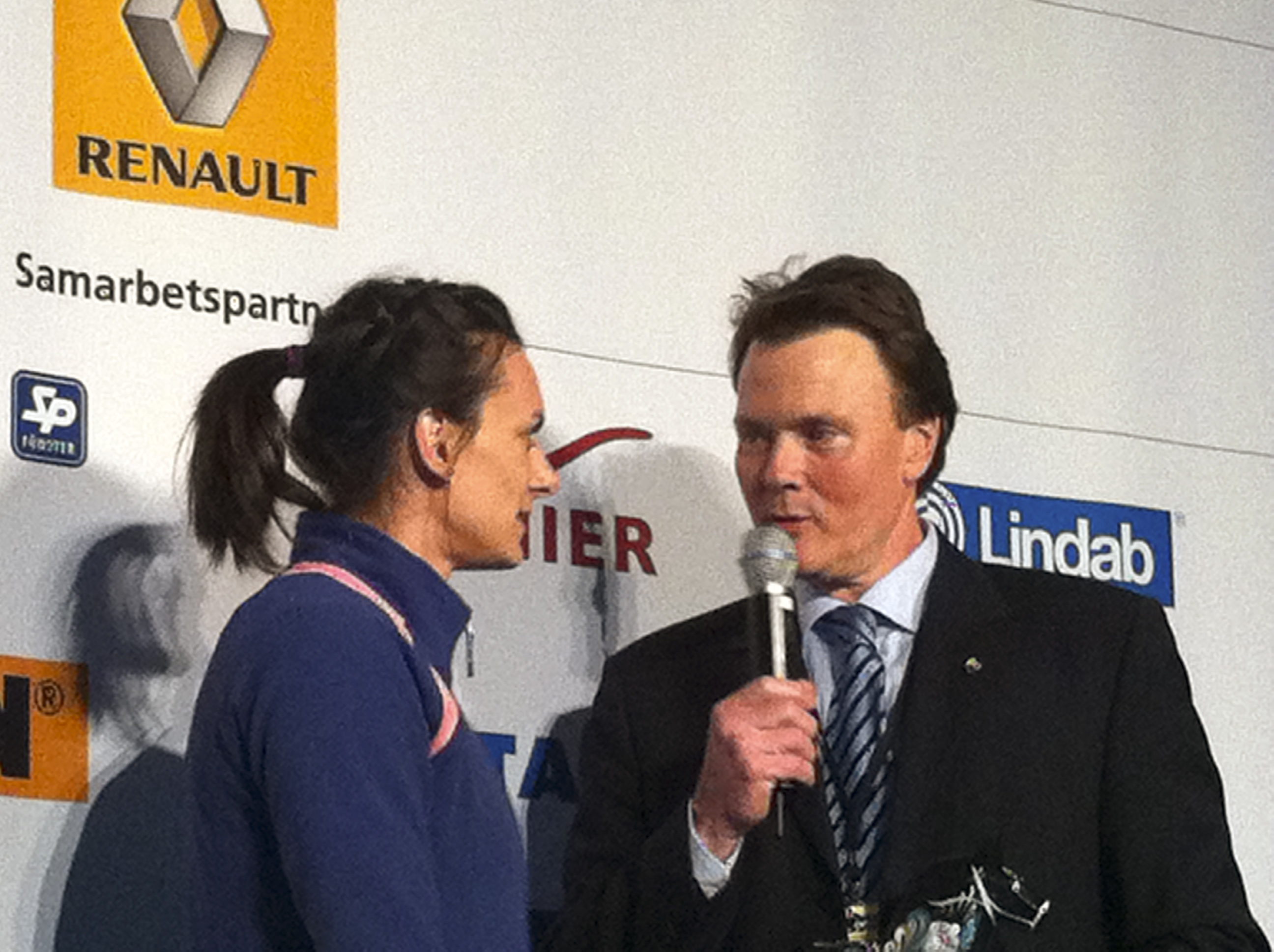 XL sport event in The Globe, Stockholm, Sweden. Jelena is interviewed by Björn Ågren, the Swedish market director of Renault, main sponsor, after setting world record indoor 5.01 m.